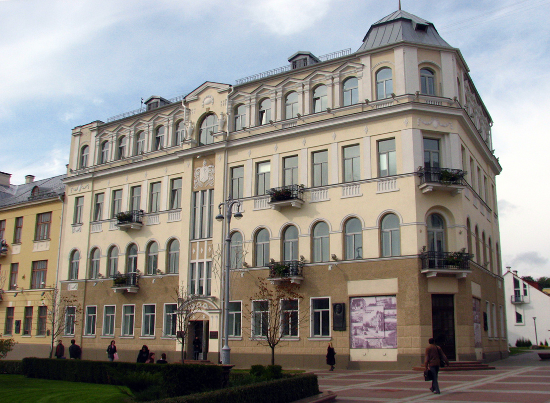 Savieckaja str., 19. Minsk, Belarus'